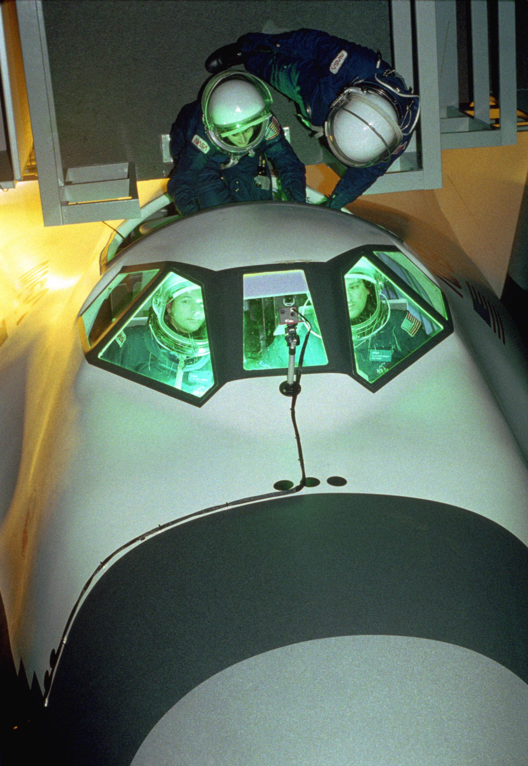 The HL-20 space taxi, Langley's candidate personnel launch system, is one of several designs being considered by NASA as a complement to the Space Shuttle. Human factors studies, using Langley volunteers as subjects, have been ongoing since March 1991 to verify crew seating arrangements, habitability, ingress and egress, equipment layout and maintenance and handling operations, and to determine visibility requirements during docking and landing operations. Langley volunteers, wearing flight suits and helmets, were put through a series of tests with the craft placed both vertically and horizontally to simulate launch and landing attitudes, The HL-20 would be launched into a low orbit by an expendable rocket and then use its own propulsion system to boost itself to the space station. Following exchange of crews or delivery of small payload, the HL-20 would return to Earth like the space shuttle, making a runway landing near the launch site, The full-scale engineering research model of the HL-20 design was constructed by students and faculty at North Carolina State University and North Carolina A&T State University with the Mars Mission Research Center under a grant from NASA Langley.